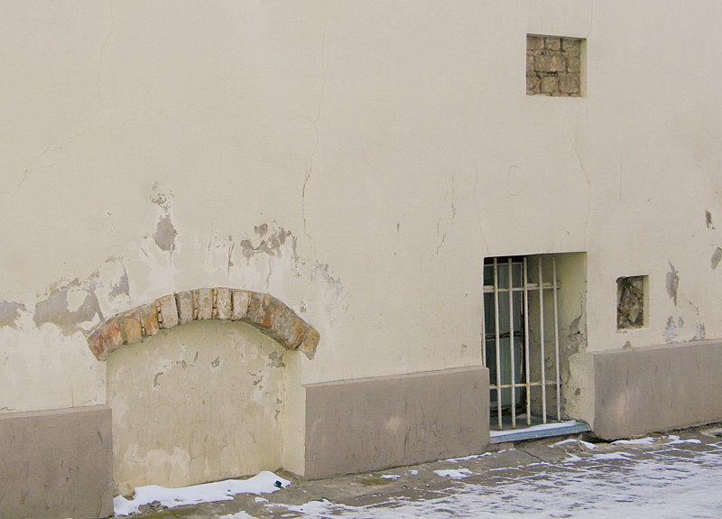 Fragment of the bishop house wall.